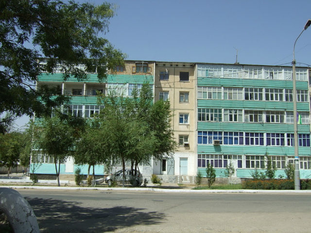 Nurabad Samarqand YuRU